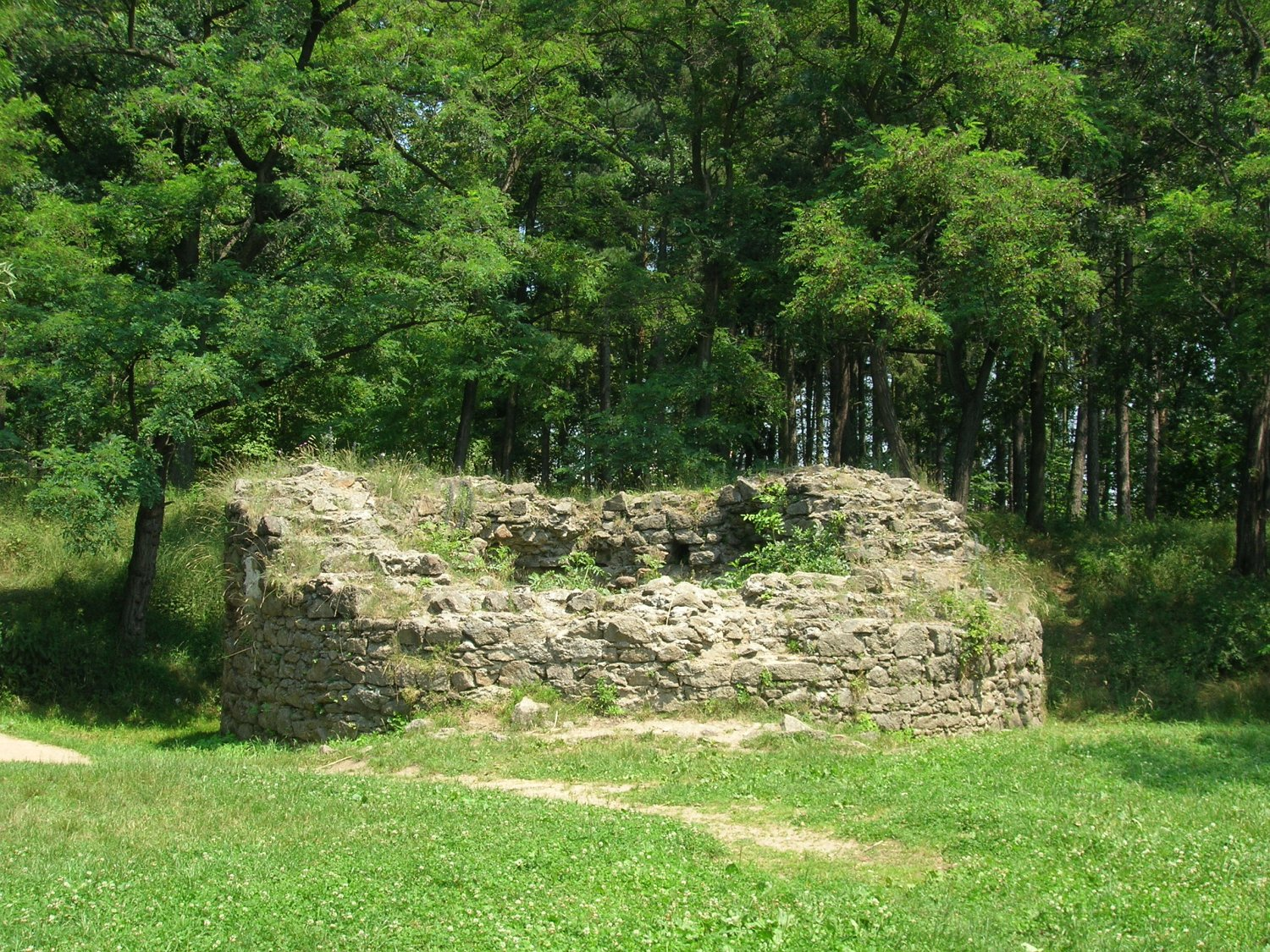 Třebíč-Zámostí. Hrádek. Medieval forward fortification